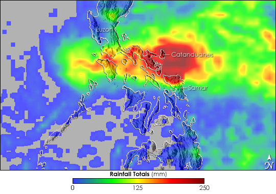 Super Typhoon Durian's total rainfall until 2006-12-01 in Philippines.